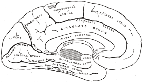 Medial surface of left cerebral hemisphere.